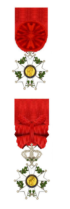 Legion of Honour Consulat and Empire